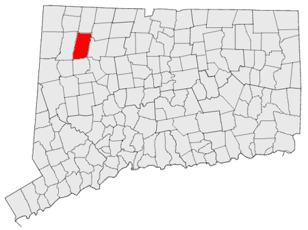 I made this.